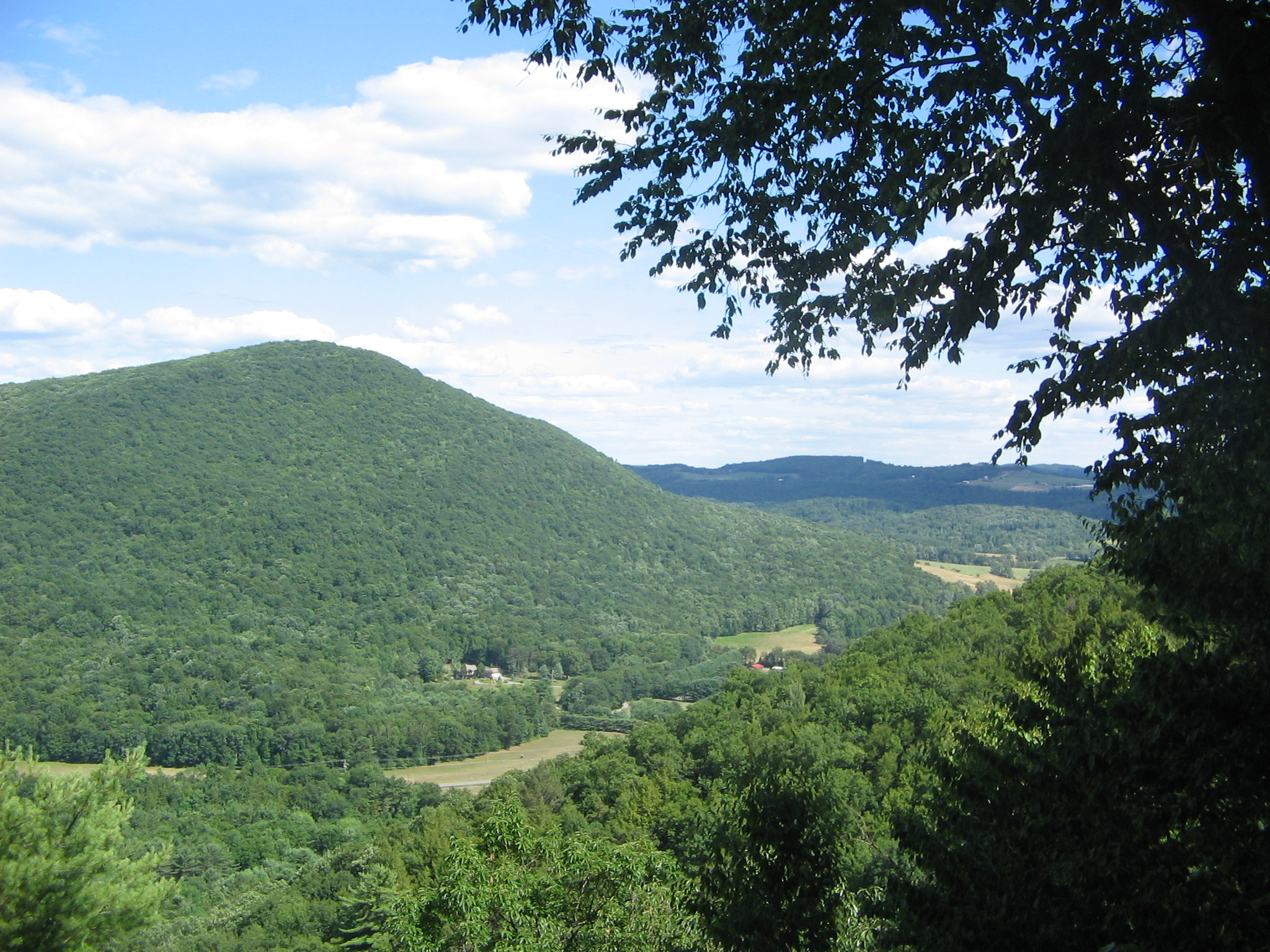 Plunketts Creek Township and the Loyalsock Creek valley from the Doe Pen Vista at Ryder Park, Lycoming County, Pennsylvania, USA